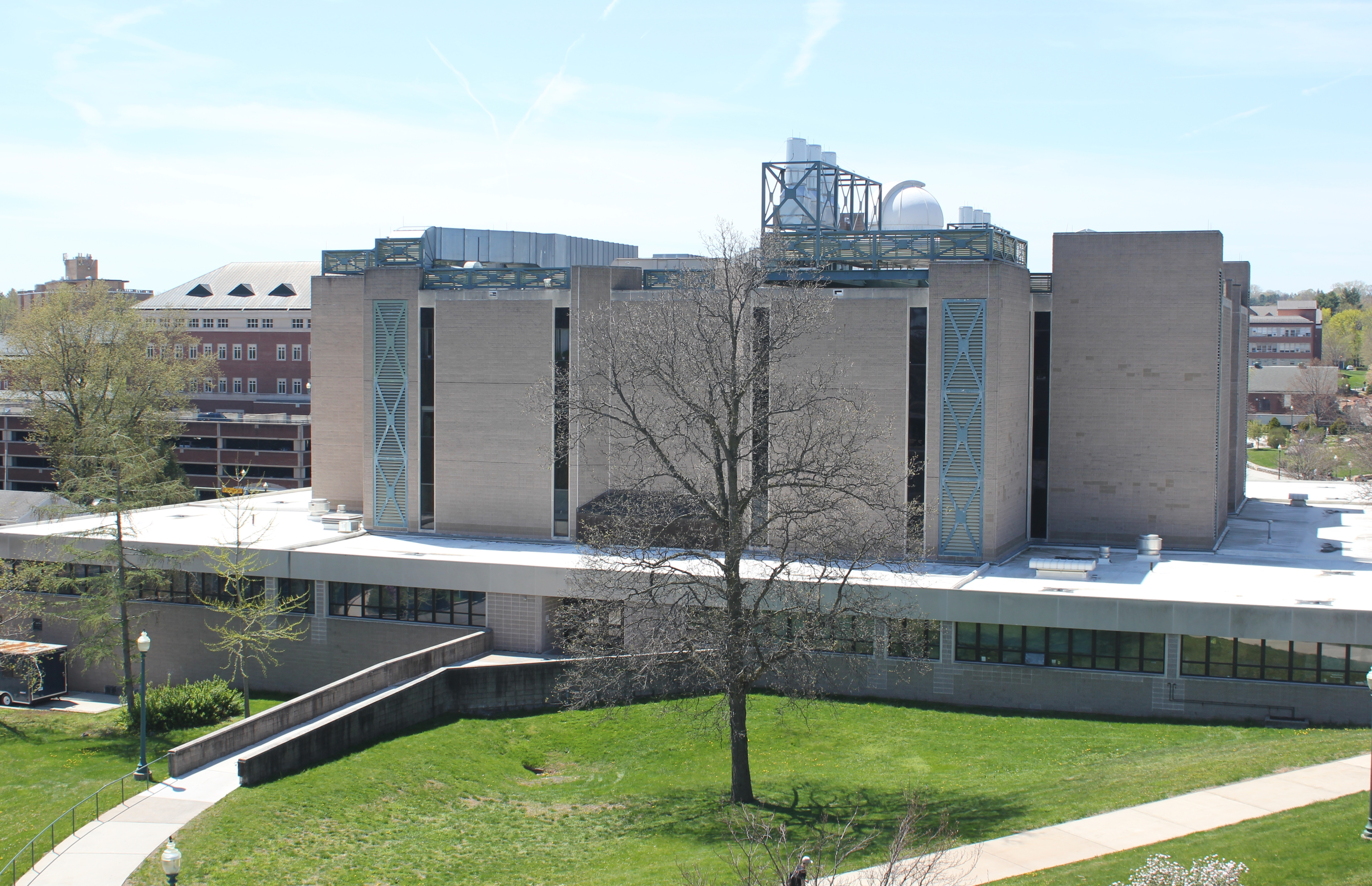 Copernicus Hall as viewed from the East